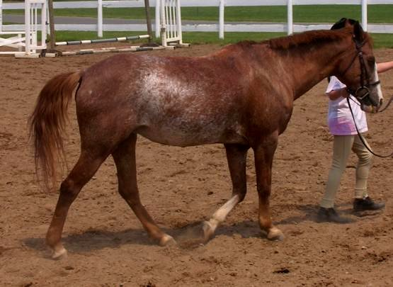 Chestnut rabicano pony mare.